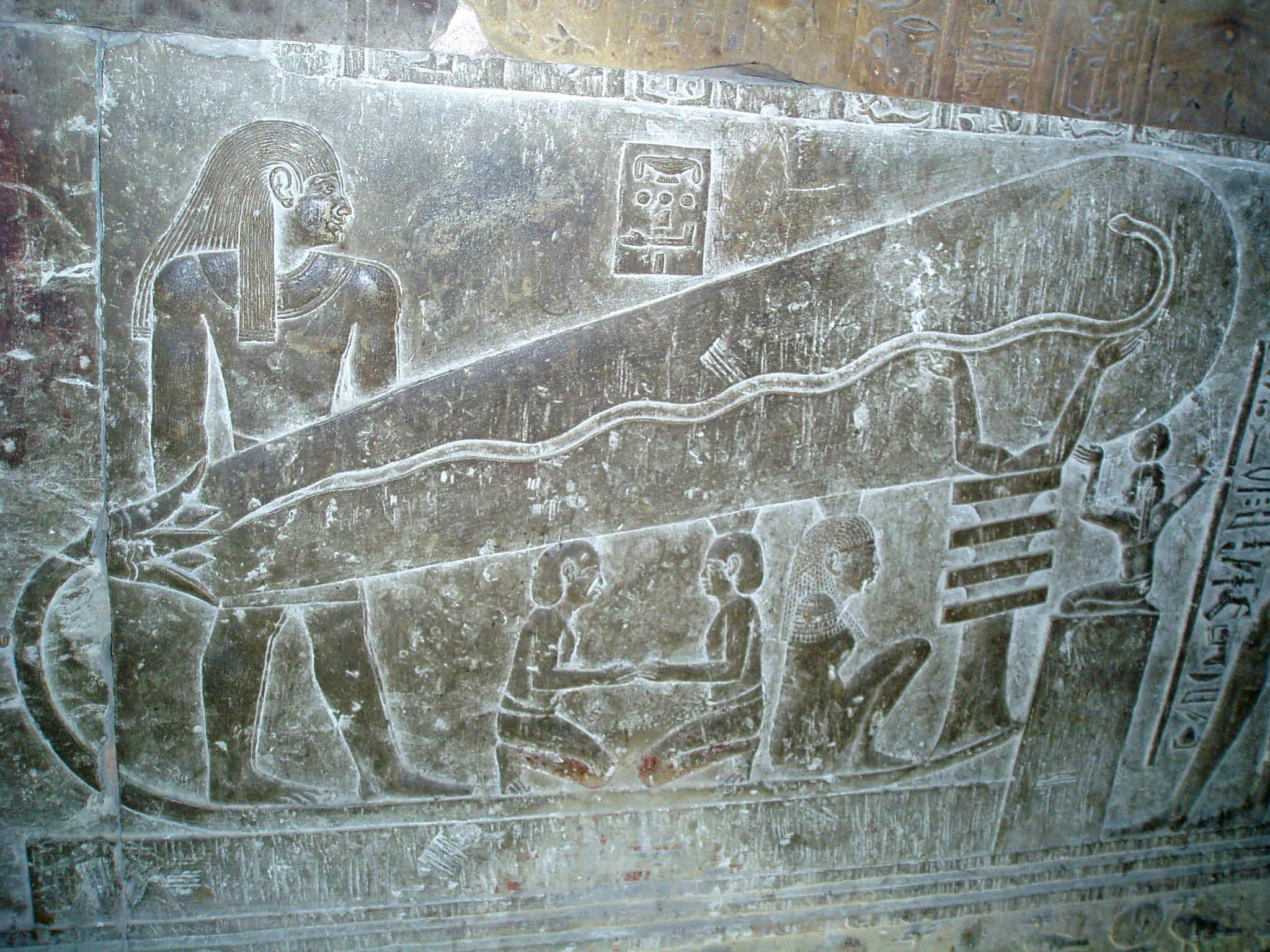 Inside the crypta of Dendera, Egypt